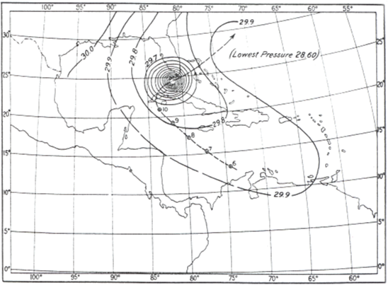 Isobar weather map depicting a powerful late-season hurricane near the Florida Keys on October 11, 1909